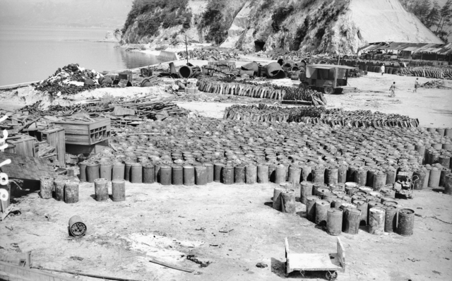 OKUNOSHIMA, JAPAN. CONTAINERS FILLED WITH MUSTARD GAS. IN THE FOREGROUND IS A SMALL METAL TROLLEY USED TO CONVEY THE CONTAINERS FROM THE FILLING-HOOD TO THE DUMP WHERE THEY AWAIT SHIPMENT. IN THE DISTANCE ARE STACKS OF 60 KG MUSTARD GAS BOMBS. THIS IS PART OF OPERATION LEWISITE TO REMOVE AND DESTROY POISON GAS (MAINLY MUSTARD AND LEWISITE) FROM THE TOKYO 2ND ARMY ARSENAL.